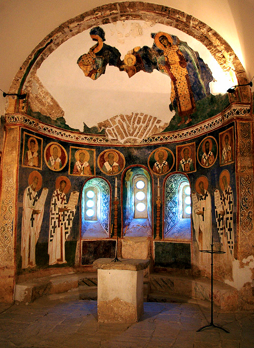 The Bachkovo Monastery ossuary, Bulgaria Kостницата на Бачковския манастир